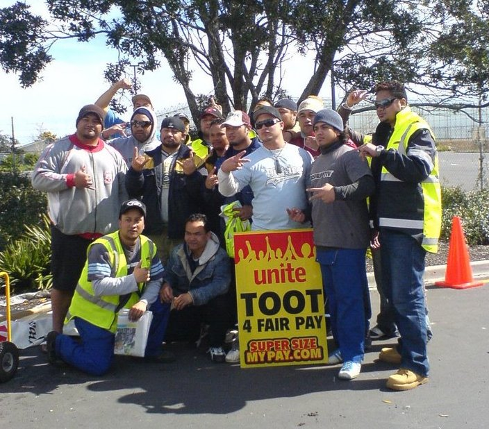 Locked out distribution workers picketing in Auckland, New Zealand.